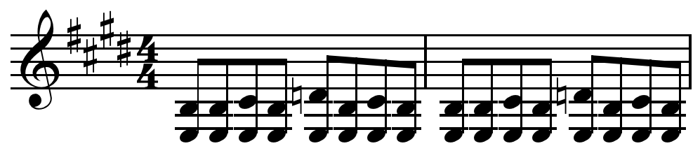 Blues shuffle or boogie played on guitar in E major. Created by Hyacinth (talk) using Sibelius 5.